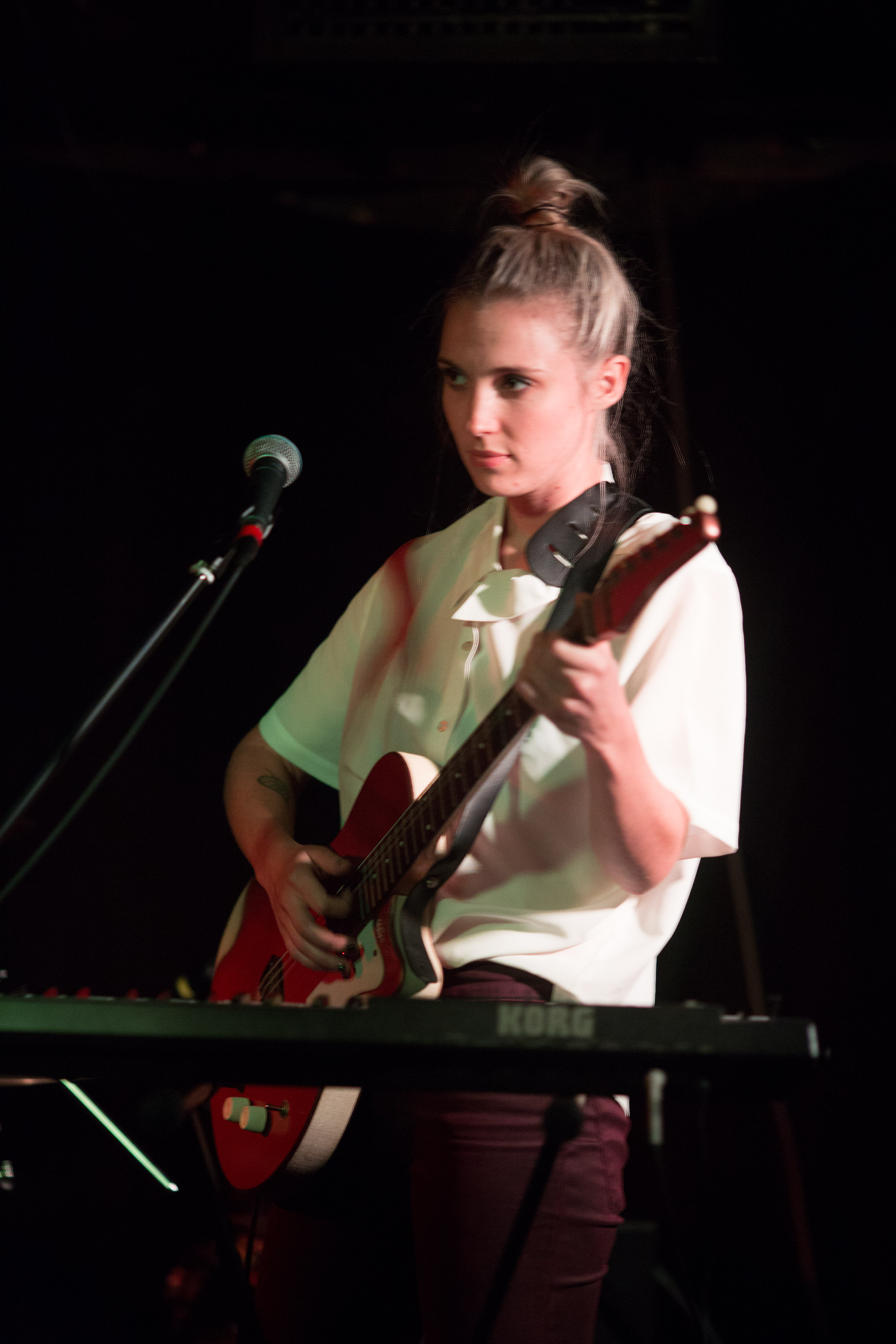 Ali Barter performing at a Katy Steele concert in 2013